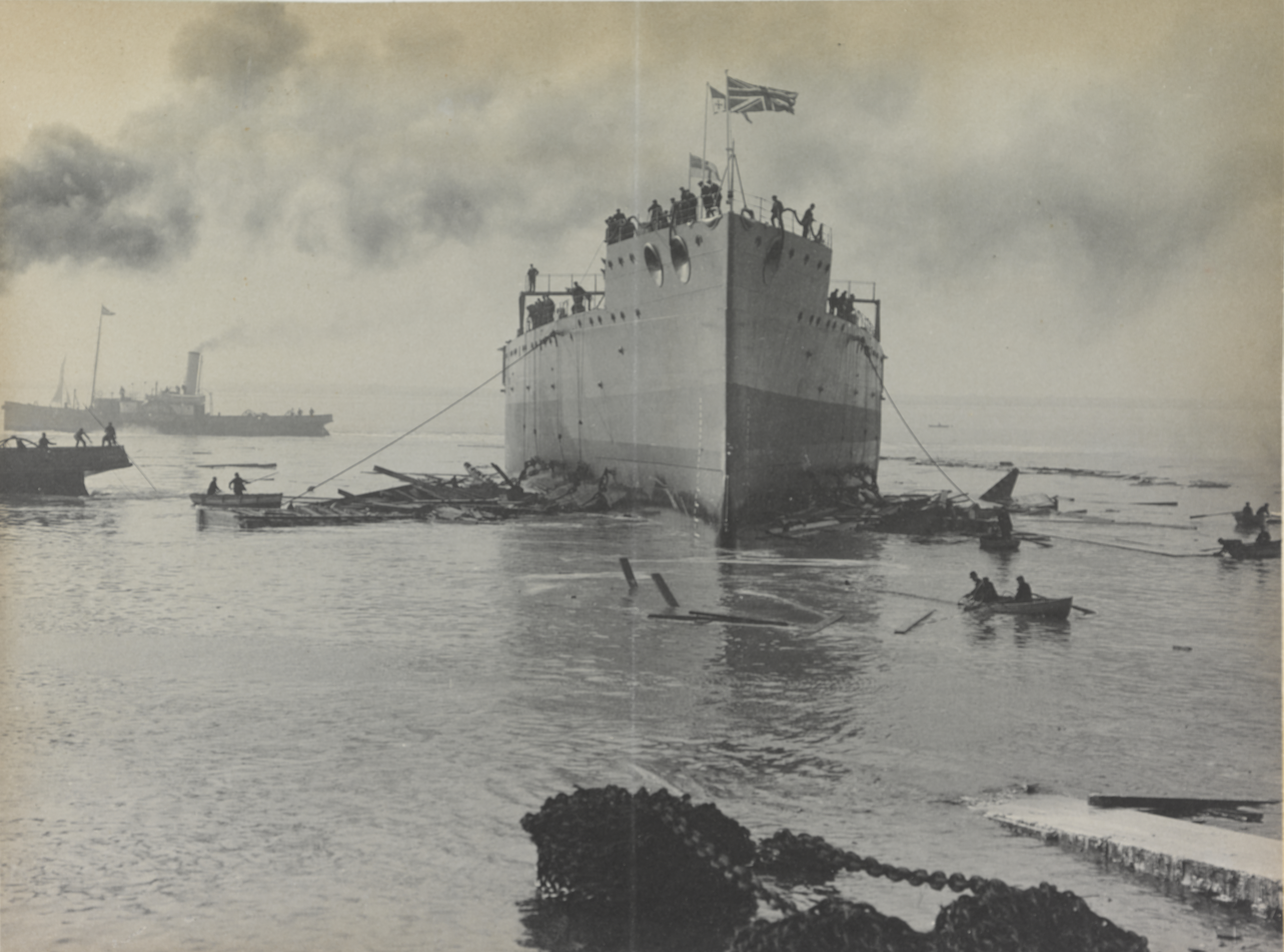 Launching of HMS Neptune